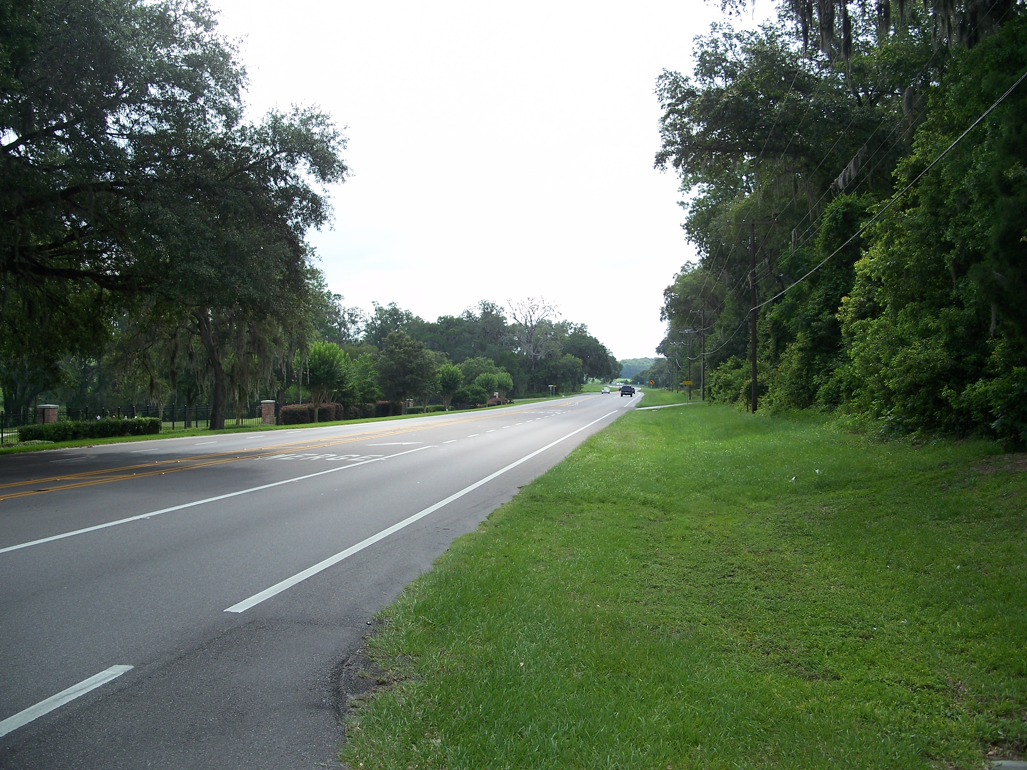 St. Leo: Looking east along SR 52, from in front of the St. Leo town hall